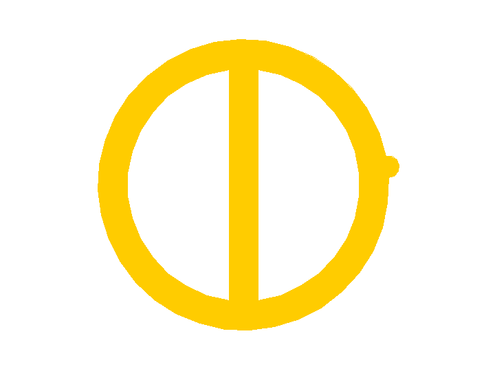 Mark of German 11 Panzer Division